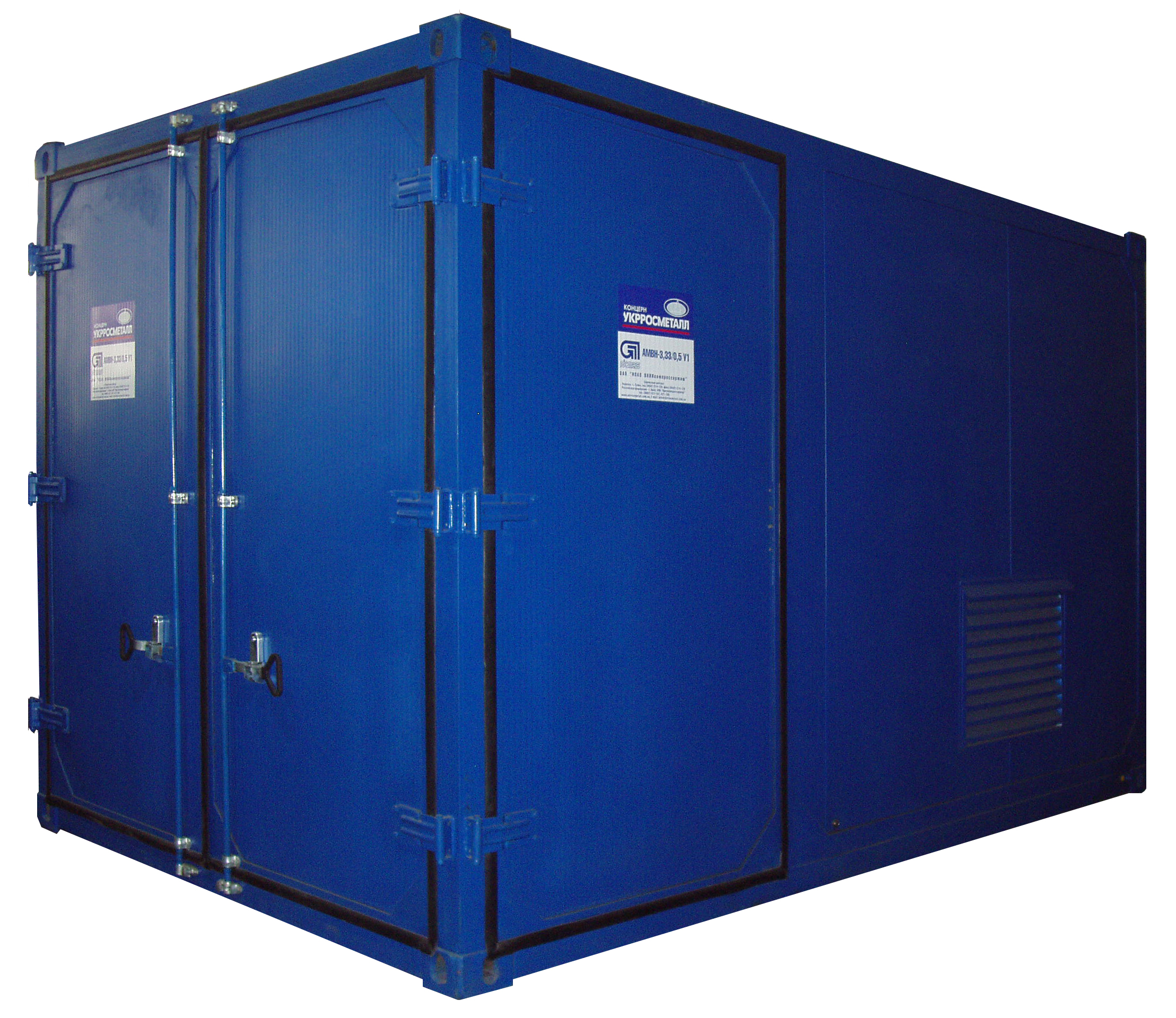 AMVN U1